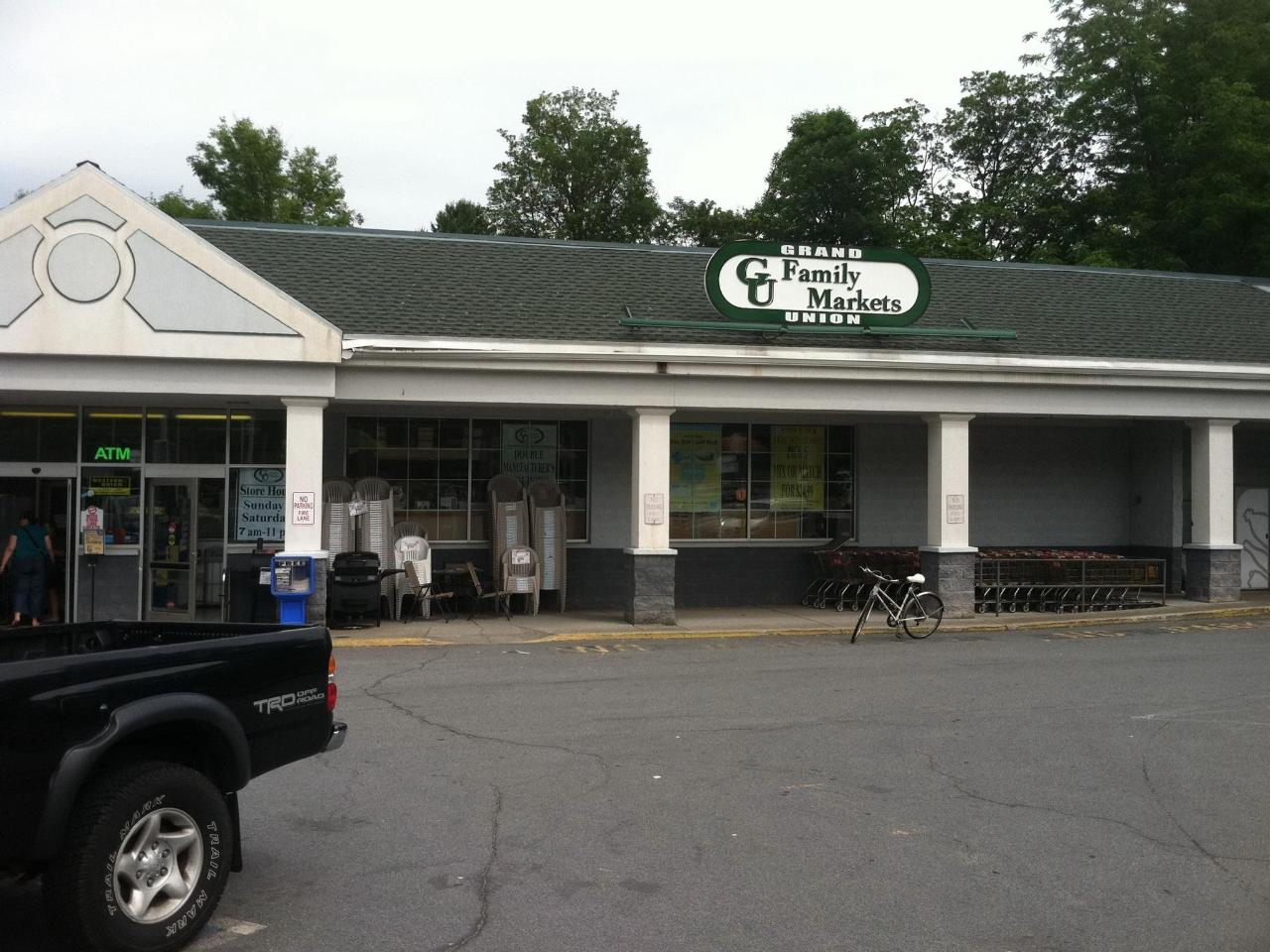 Former Grand Union in Bolton Landing, NY; now a Tops.